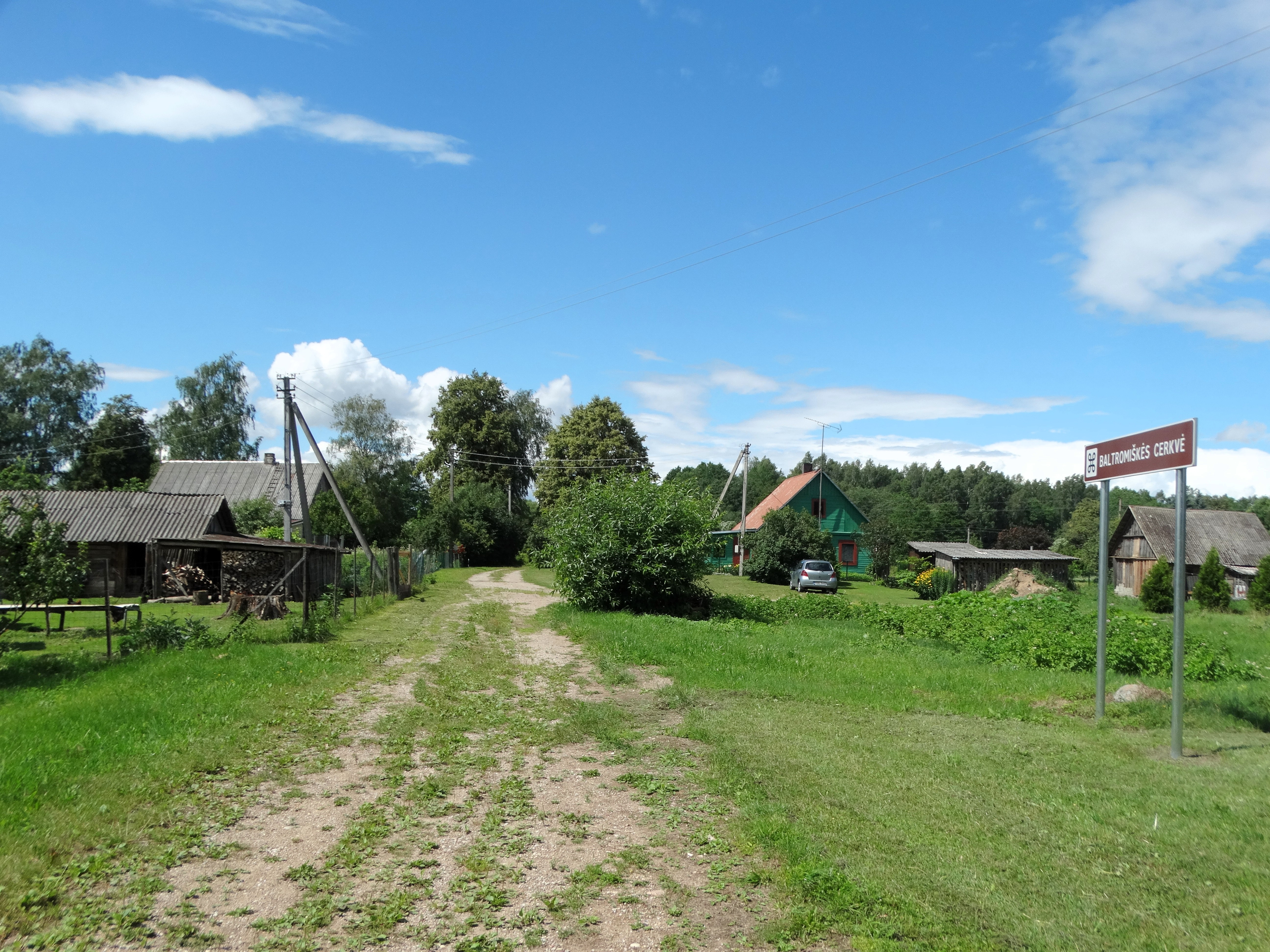 Baltromiškė, Jonava District, Lithuania